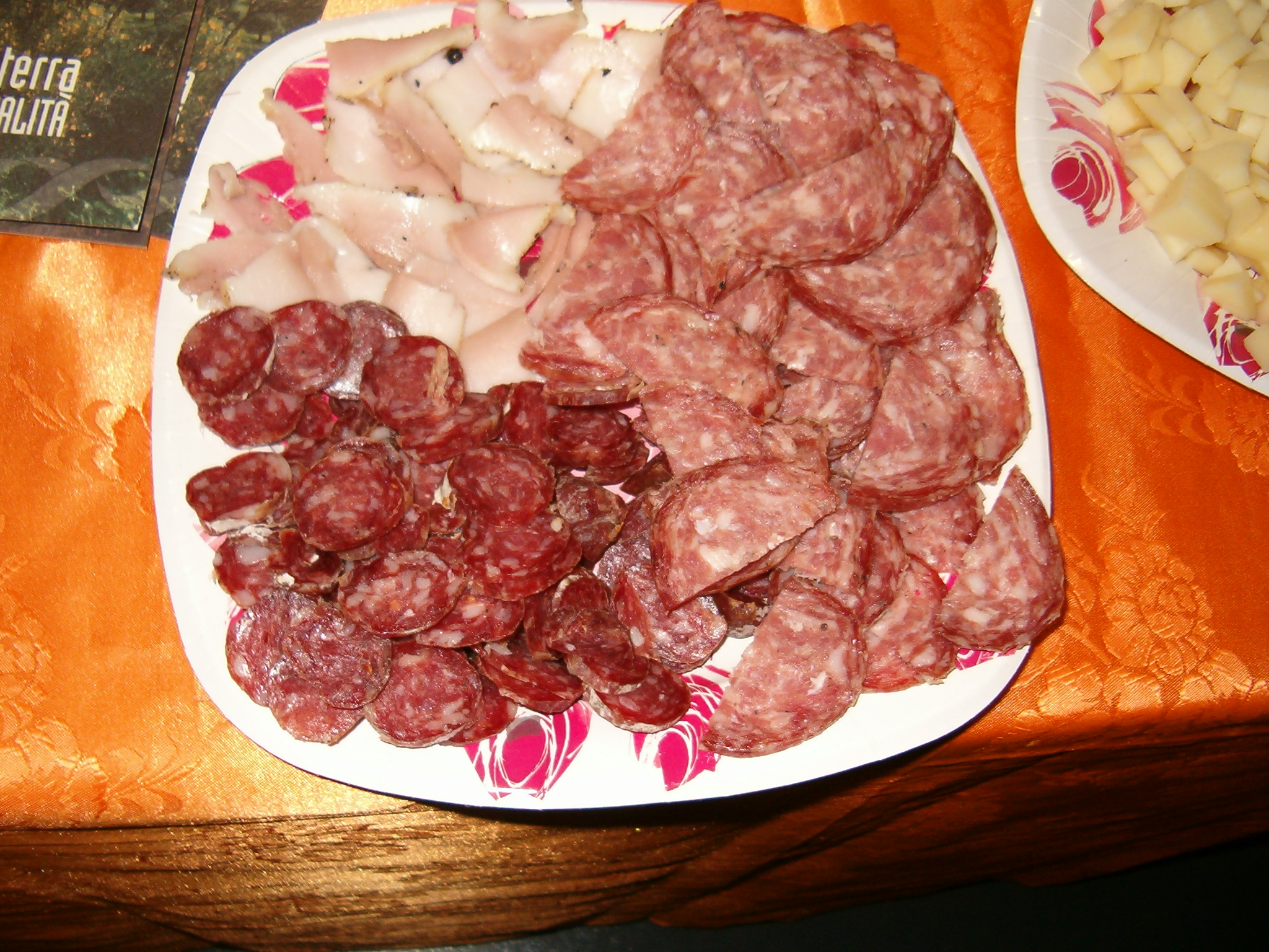 italian food